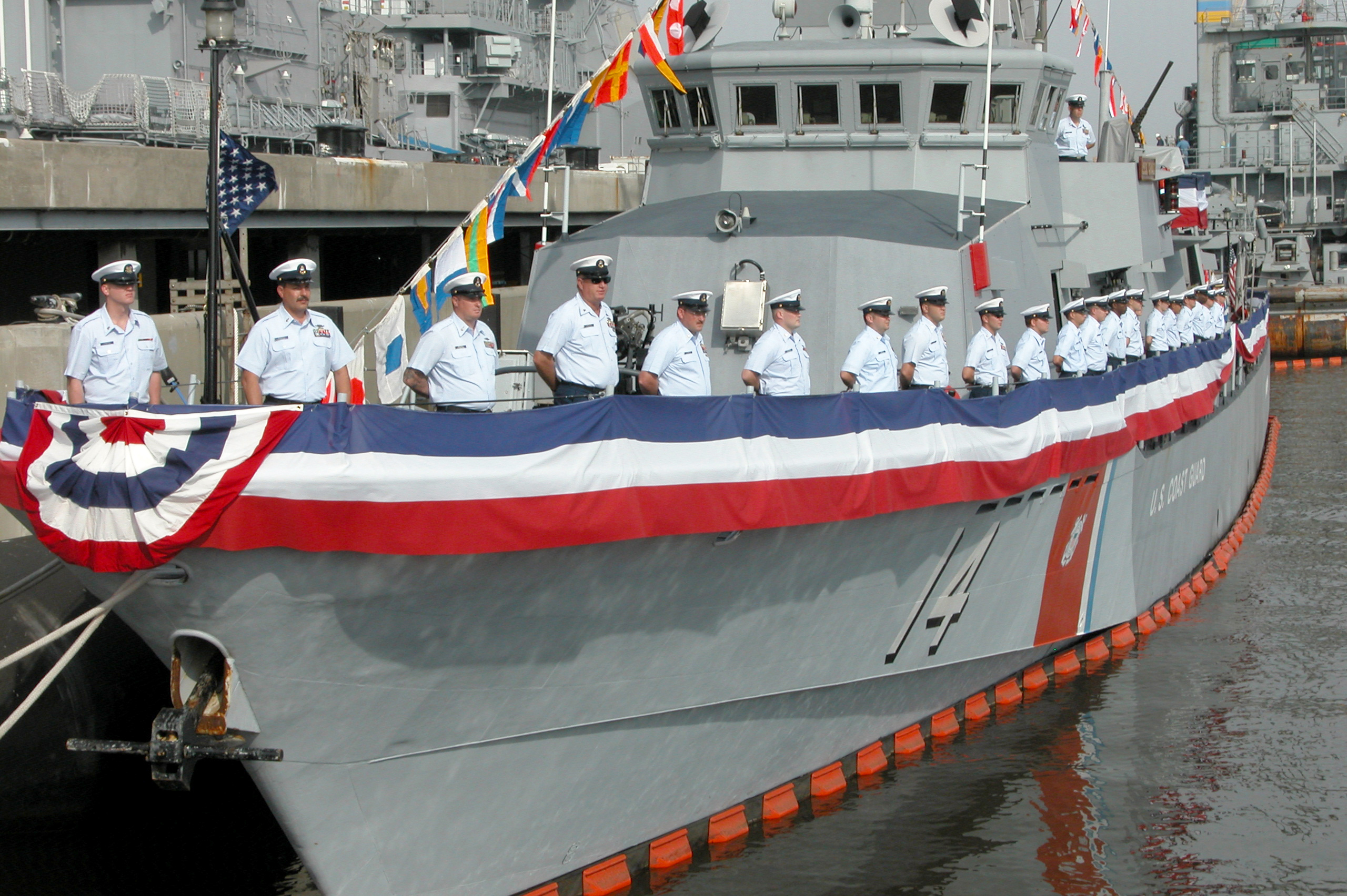 041206-N-6344D-001 Pascagoula, Miss. (Dec. 6, 2004) – U.S. Coast Guardsmen man the rails of Coast Guard patrol craft USCGC Tornado (WPC 14), was commissioned as an active U.S. Coast Guard cutter in a formal ceremony at the Naval Station Pascagoula, Miss., on Dec. 6. Commandant of the Coast Guard, Adm. Thomas Collins and Sen. Thad Cochran (R-MS) were among the guest speakers at the commissioning ceremony. The Tornado is former U.S. Navy patrol craft transferred to the Coast Guard under a memorandum of agreement between the Navy and Coast Guard signed in Oct. 2004. The vessel’s primary missions will be to conduct homeland security, drug and alien migrant interdiction, search and rescue operations in the Caribbean Sea and the Gulf of Mexico under the guidance of the Commander, Coast Guard Atlantic Area.